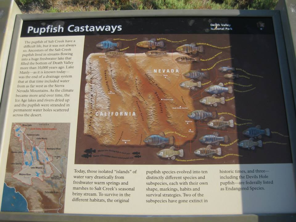 This interpretive material displays the distribution of Cypinodon nevadensis subspecies in the present day and relates it to geologic history.